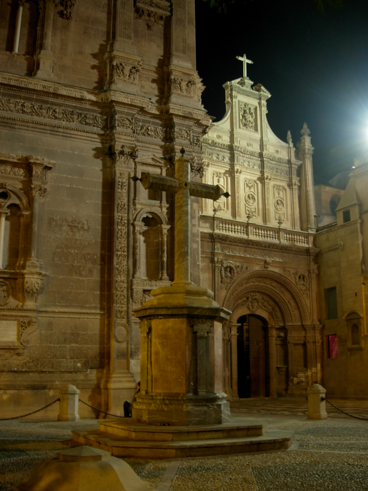 Cathedral of Murcia - Spain